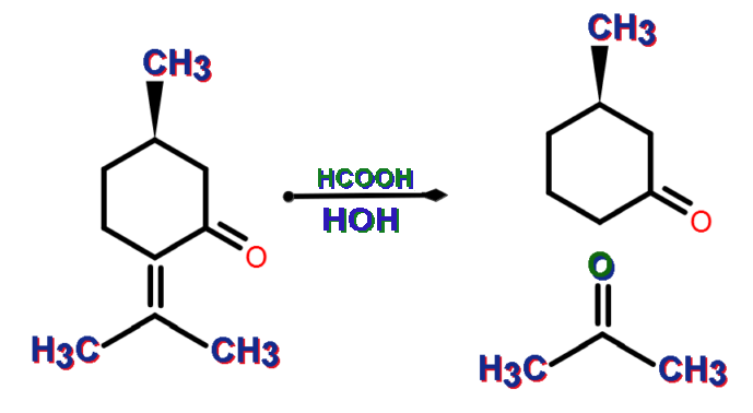 Pulegone decomposition in acid medium by hydration